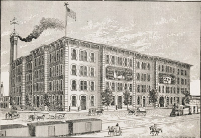 Old Bull with power plant behind it, 1895, Duke Manuscript Collection. Published in: "Hand-book of Durham, North Carolina: A Brief and Accurate Description of a Prosperous and Growing Southern Manufacturing Town." Durham: The Educator Company, 1895, page 34.